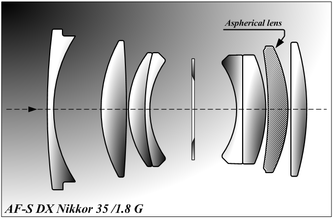 Nikkor lens.